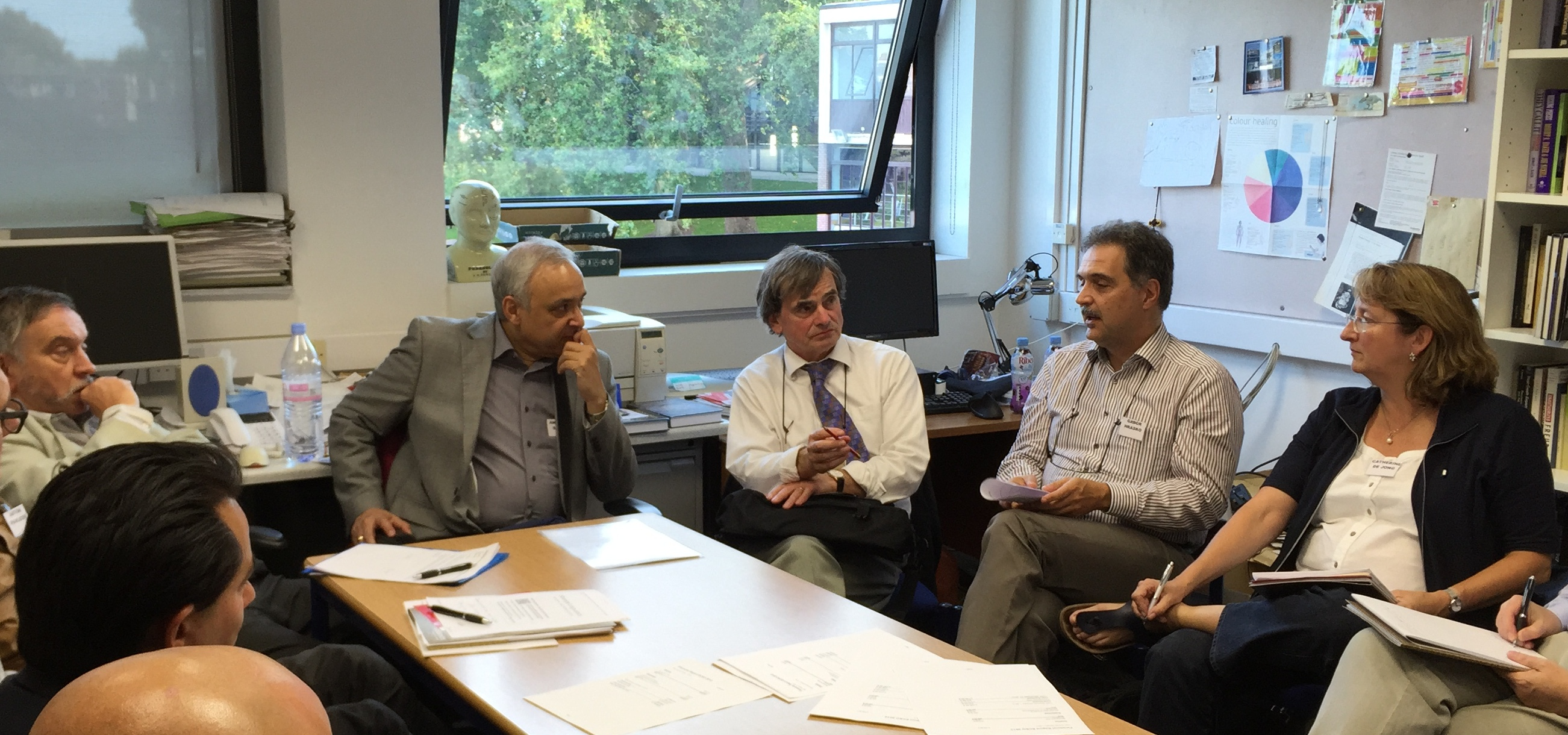 Meeting of the representatives of member organisations of ECSO (European Council of Skeptical Organisations) after the Friday afternoon session of European Skeptics Congress 2015 in London.